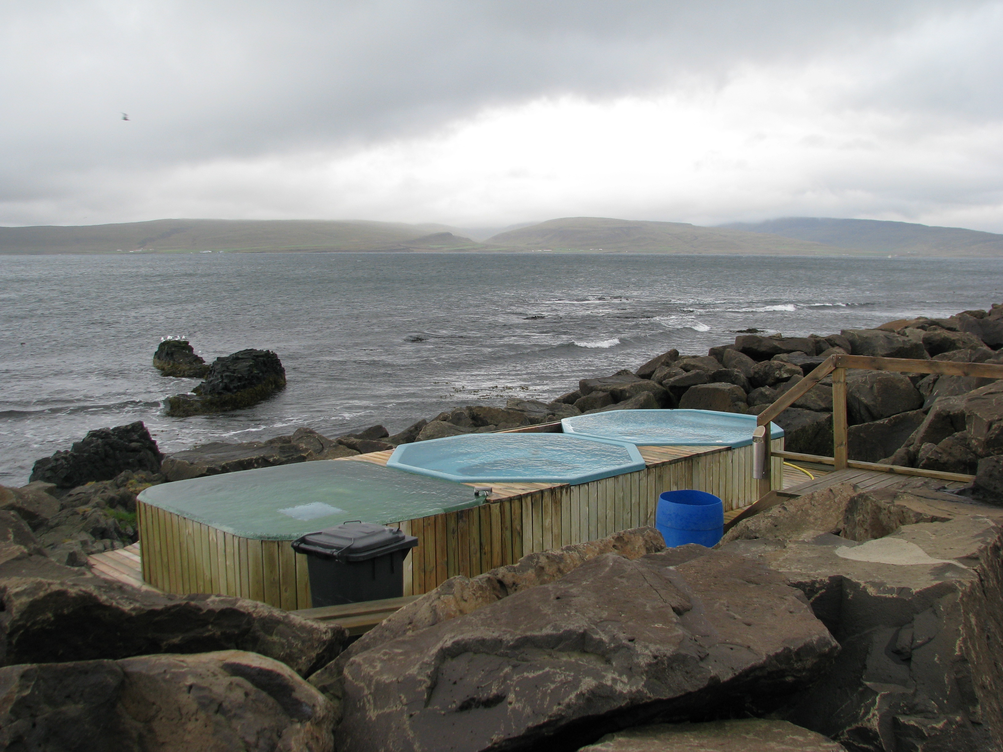 Hottubs on the shore at Drangsnes, iceland